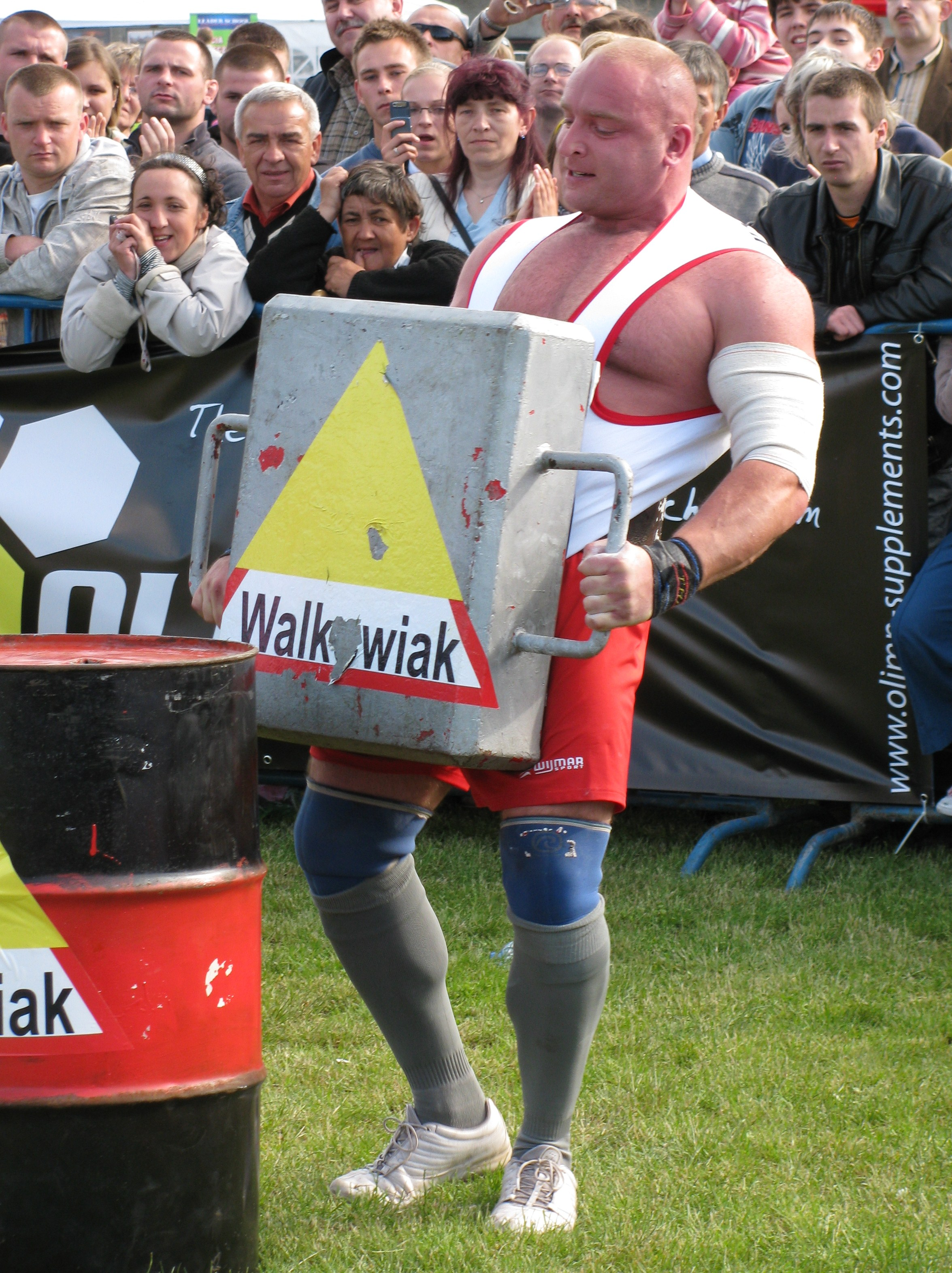 Tyberiusz Kowalczyk - a strength athlete from Poland